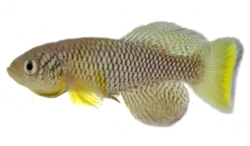 Male Nothobranchius furzeri GRZ, a species of killifish in the order Cyprinidontiformes, originating from Gonarezhou National Park